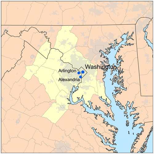 This is a map of the Washington Metropolitan Statistical Area as defined by the U.S. Census Bureau in 2006. The Metropolitan Statistical Area is shown in yellow. The light gray shading indicates urbanized areas.